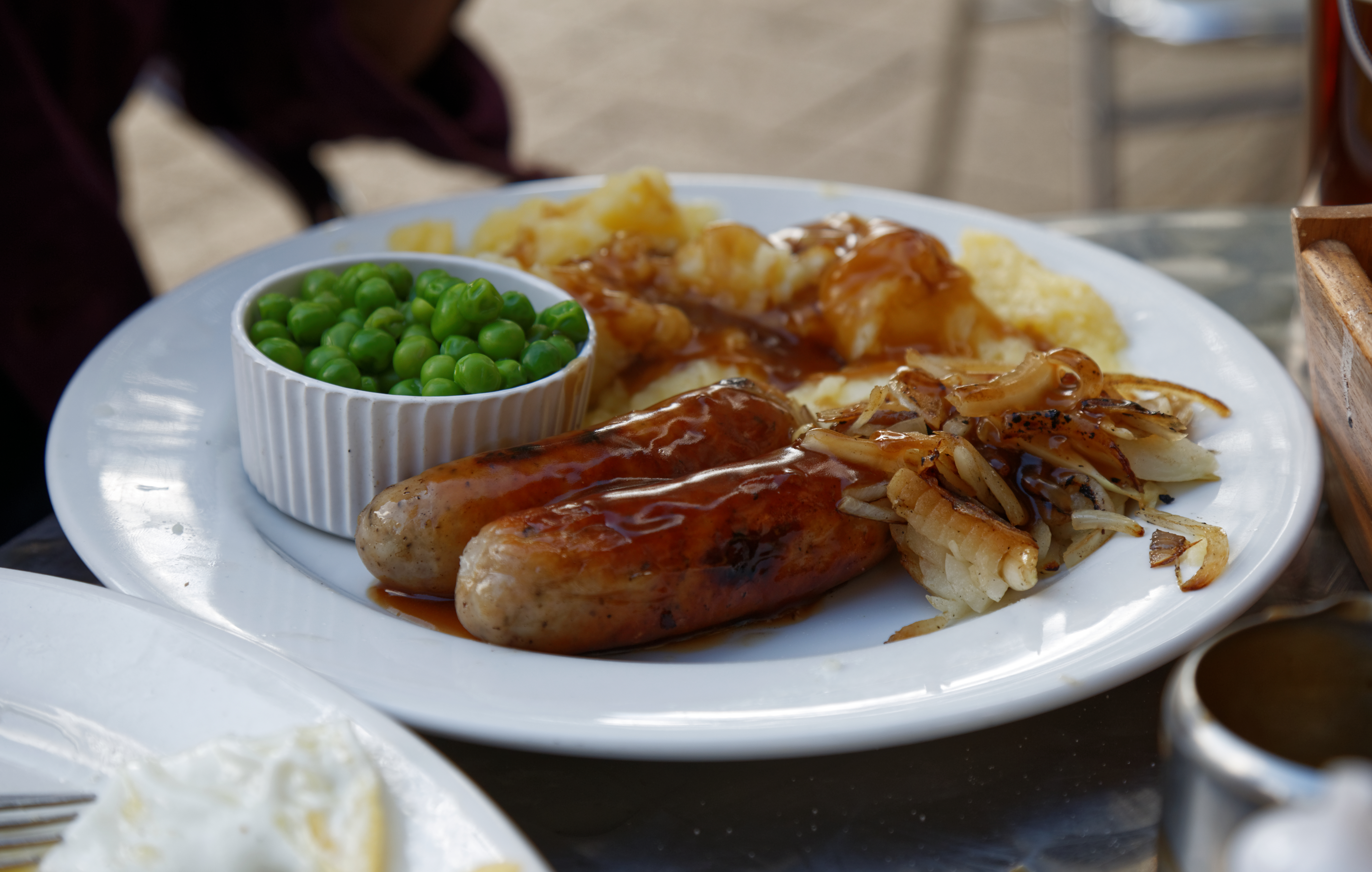 A plate of sausage mash onions and peas at the Black Lion public house on High Street, Epping, Essex, England.Software: RAW file lens-corrected, optimized and converted to JPEG with DxO OpticsPro 10 Elite, and likely further optimized and/or cropped and/or spun with Adobe Photoshop CS2.